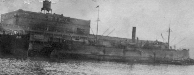 The commercial cargo ship SS Eastern Queen, photographed probably when she was inspected by the US Navy's 13th Naval District for possible naval service. She later served as the U.S. Navy cargo ship USS Eastern Queen (ID-3406).